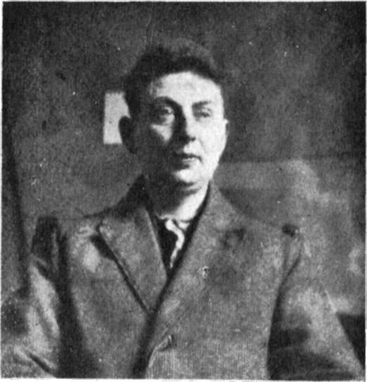 Peter Roehl (full name: Karl Peter Röhl).